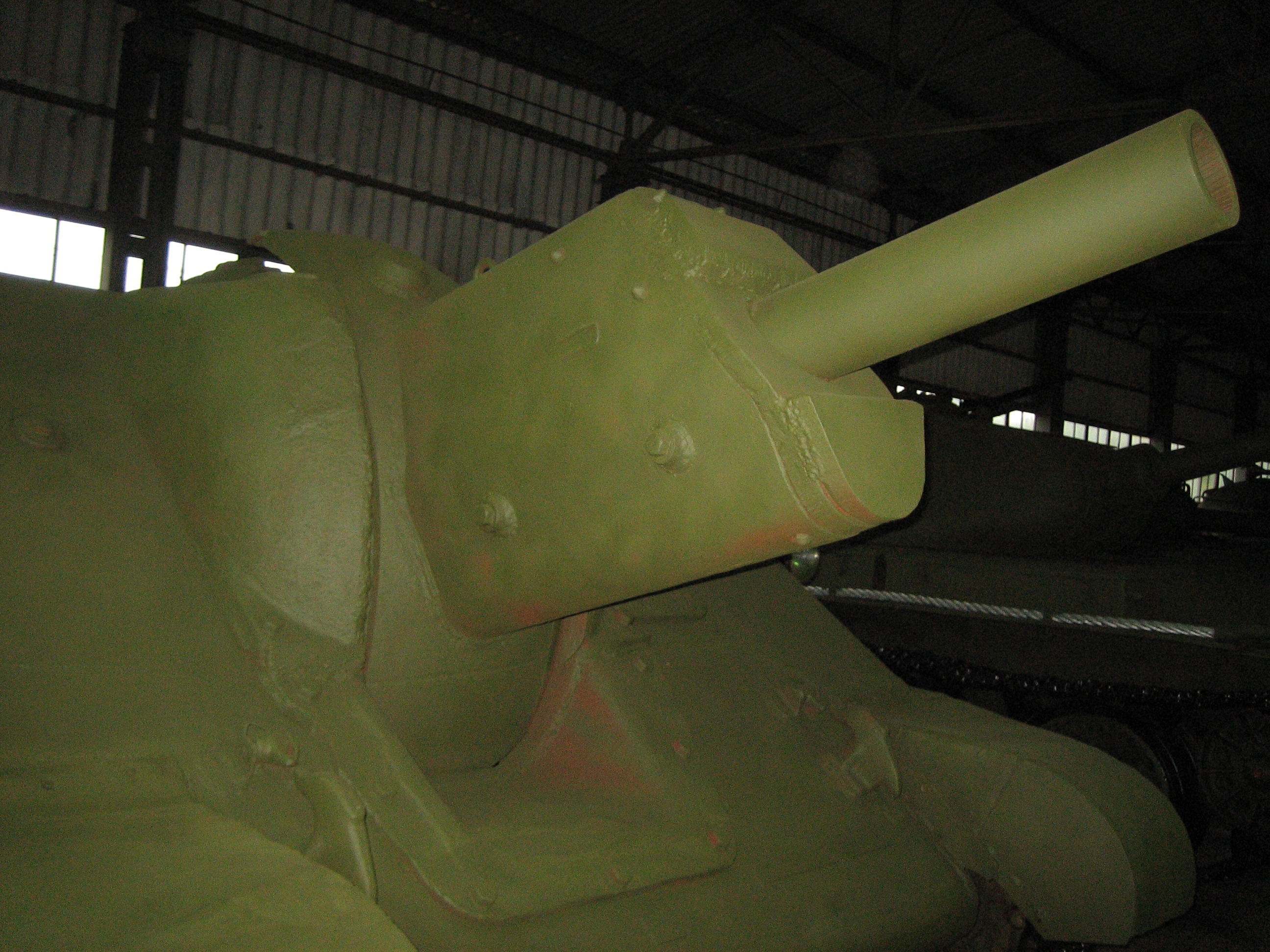 Soviet self-propelled gun SU-122, displayed in Kubinka Tank Museum. Photo taken on September 9, 2007. Source: Photo by me, User:Saiga20K.